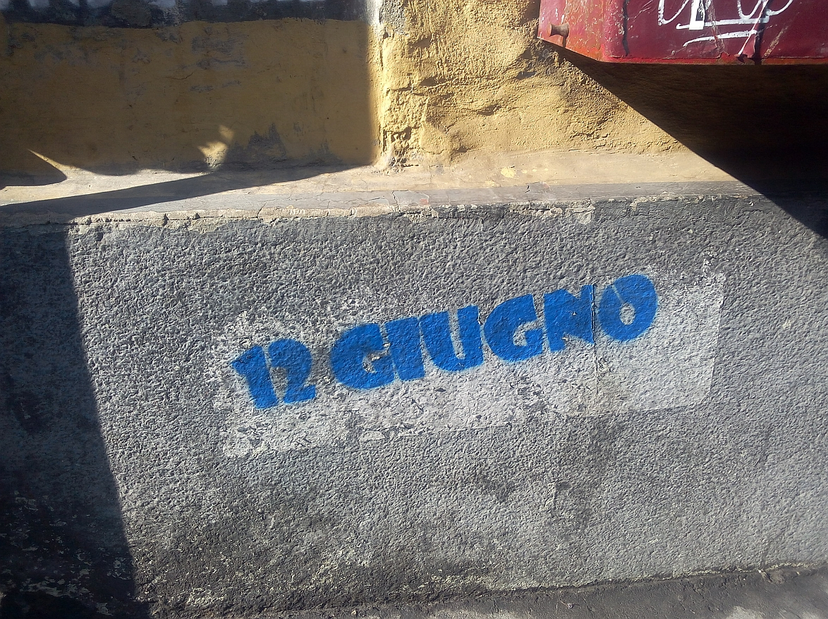 June 12 graffiti in Saluzzo, Turin, Italy